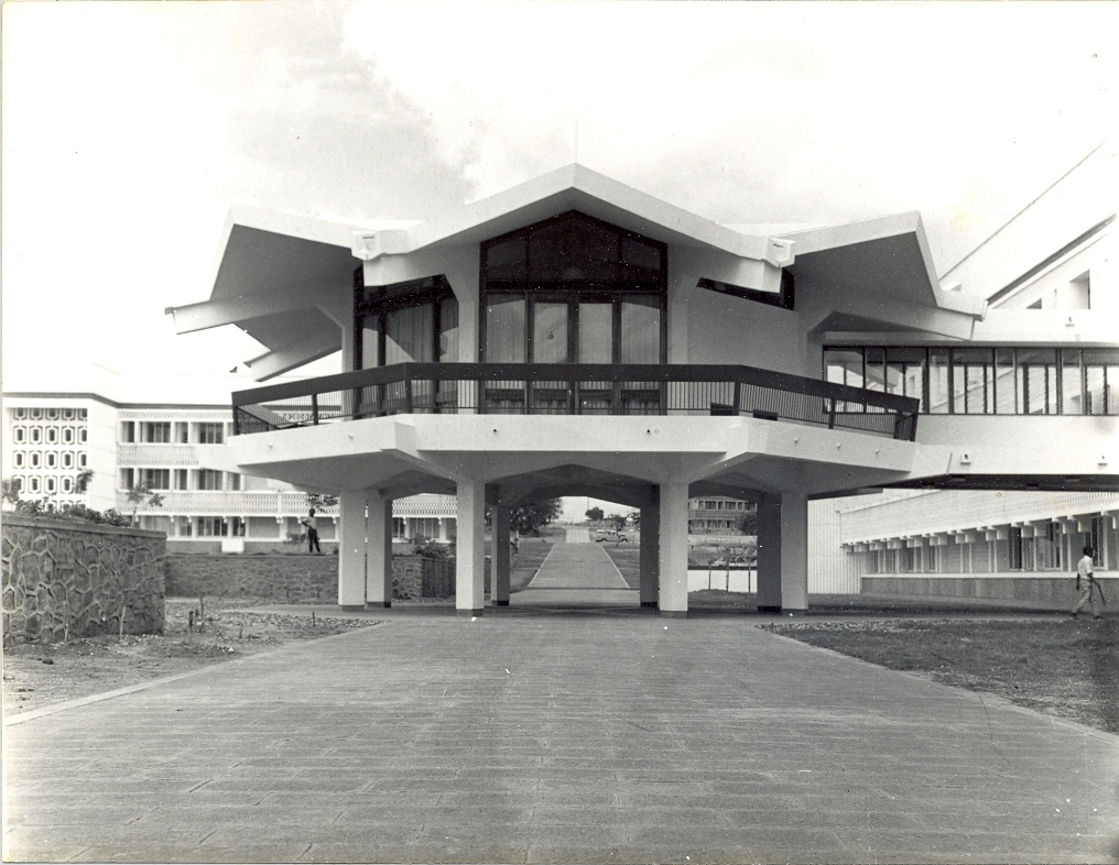 Entrance to government offices at Capital Hill, Lilongwe